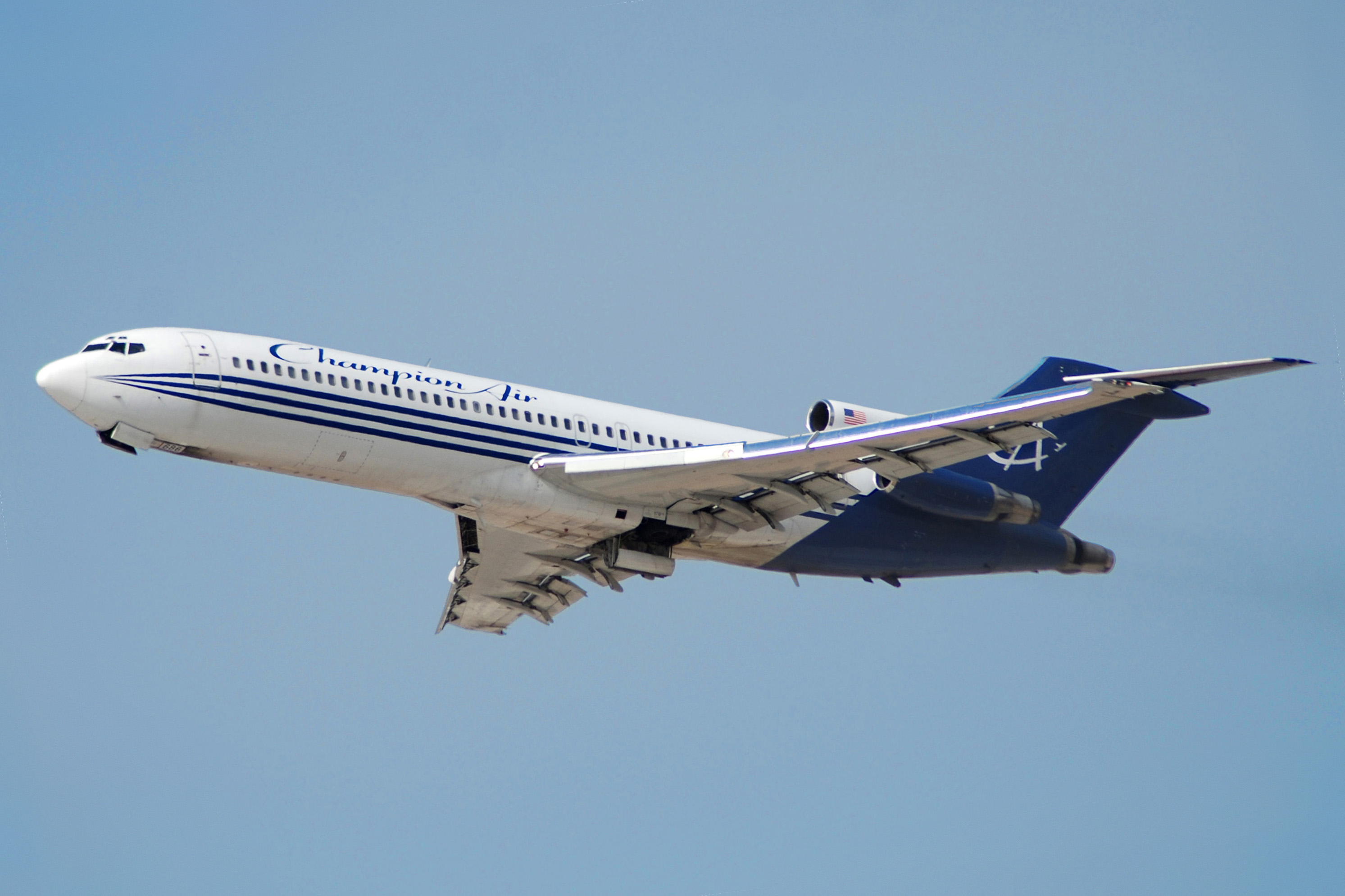 Champion Air Boeing 727-2S7/Adv aircraft (N686CA) at Los Angeles International Airport (LAX/KLAX)